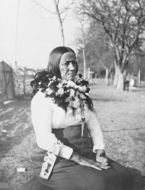 Photographer: Dr. Frank G. Speck (Frank Gouldsmith Speck/F.G. Speck), Non-Indian, 1881-1951 Subject: Theodora Octavia Dennis Cook (Theodora Octavia Dennis/Wife of Chief George Major Cook), Pamunkey, ca. 1864-ca. 1935 Donor: Dr. Frank G. Speck (Frank Gouldsmith Speck/F.G. Speck), Non-Indian, 1881-1951 Date Created: 1919 Catalog Number: N12731 Format: Acetate negative Dimensions: 5 x 7 in. Collection History: Frank G. Speck documented Native life through fieldwork, collecting, and photography; this photograph probably accompanied objects acquired by MAI in the 1920s Description: Outdoor seated portrait of the woman Theodora Octavia Dennis Cook, wife of Chief George Major Cook, wearing a woven feather neck ornament of wild turkey feathers, wild goose, and shelldrake or shellduck, made by Margaret Adams (who may be pictured in N12588) circa 1910-1920, NMAI catalog number 105721.000. She wears a long dark dress, and white blouse, with a beaded headband hanging from her arm. Place: Pamunkey Reservation; King William County; Virginia; USA Culture/People: Pamunkey Powhatan Persistent URL: Repository:National Museum of the American Indian View more collections from the Smithsonian Institution.